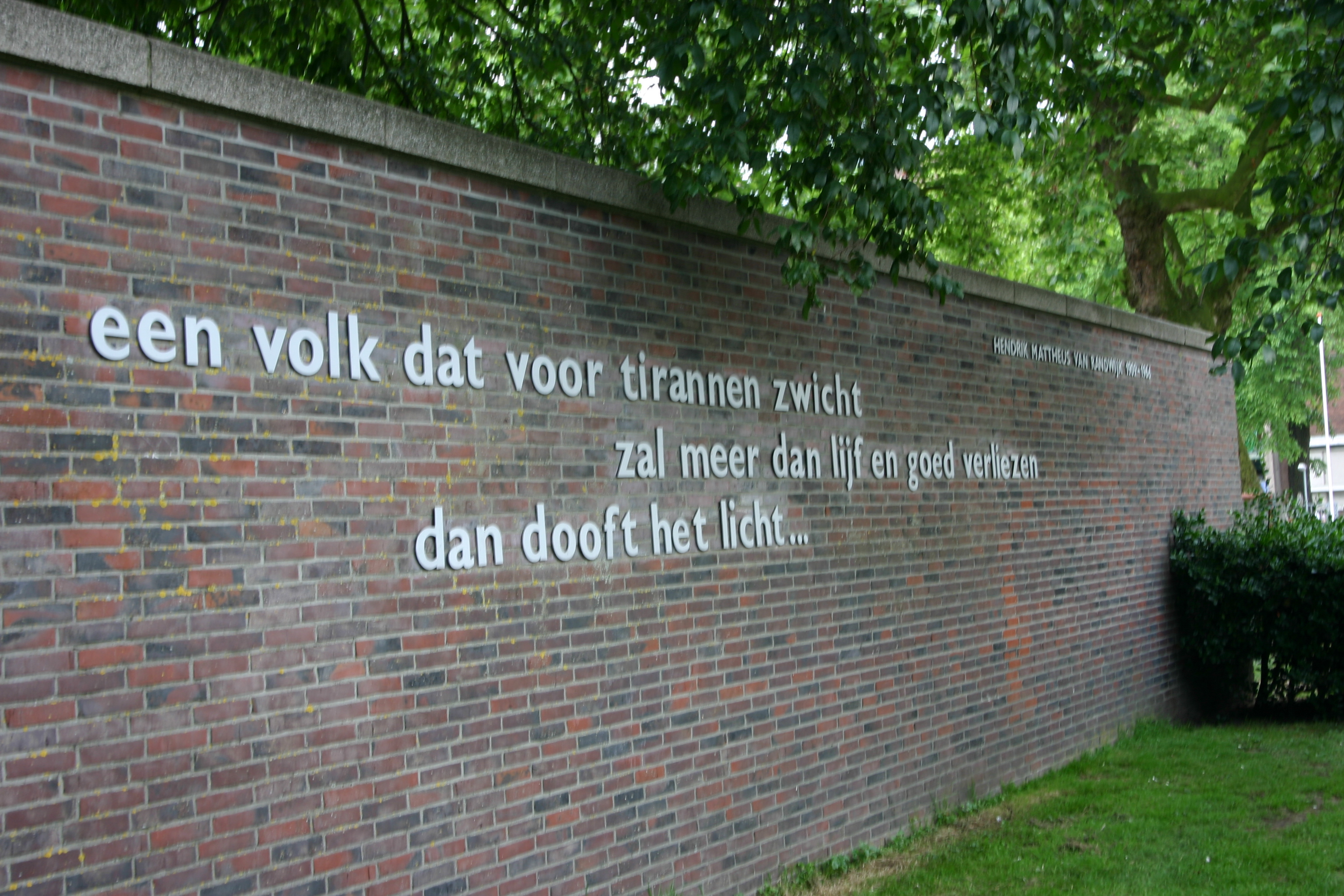 Monument by Henk van Randwijk at the Weteringplantsoen in Amsterdam